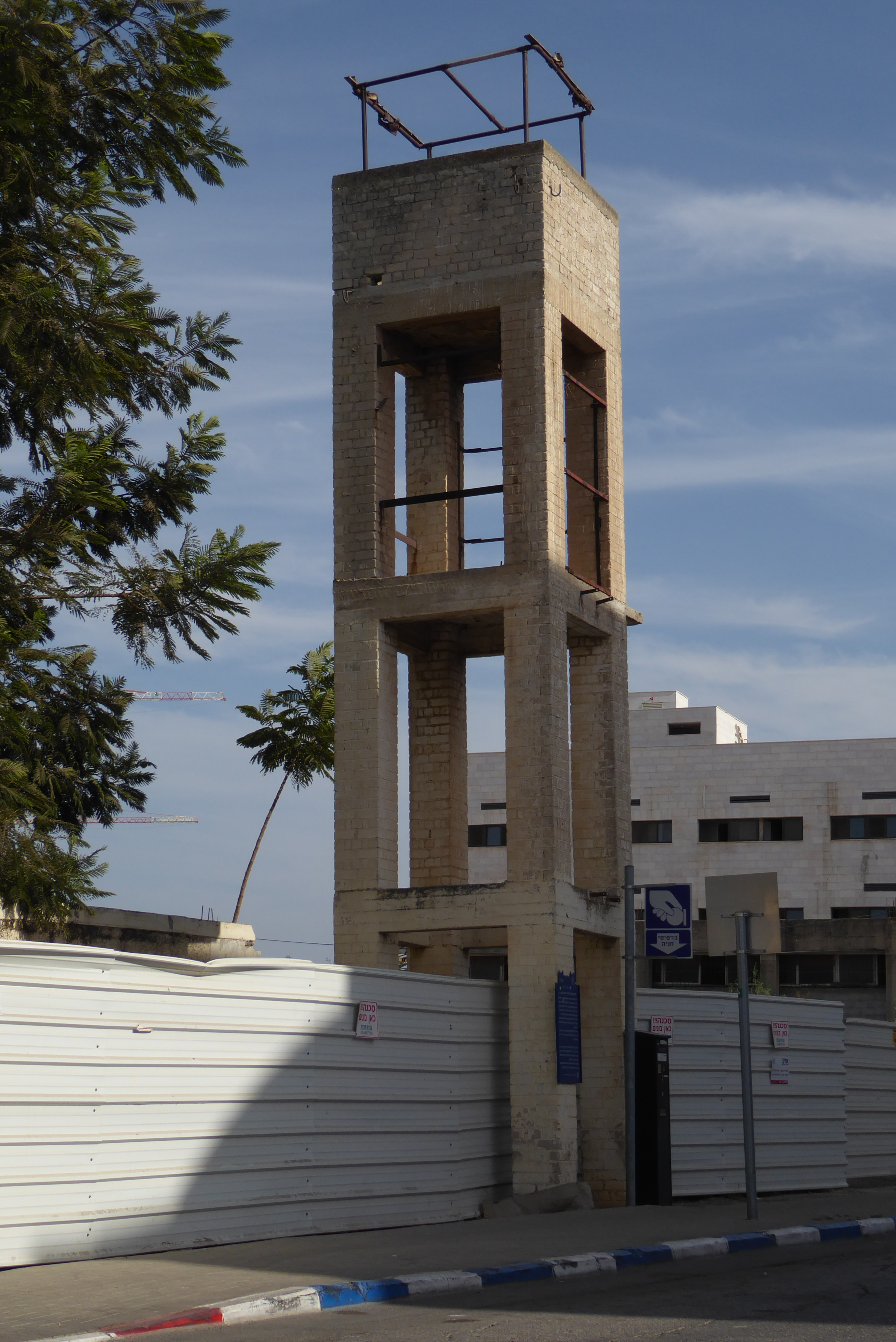 British Guard Tower on HaAvoda Street